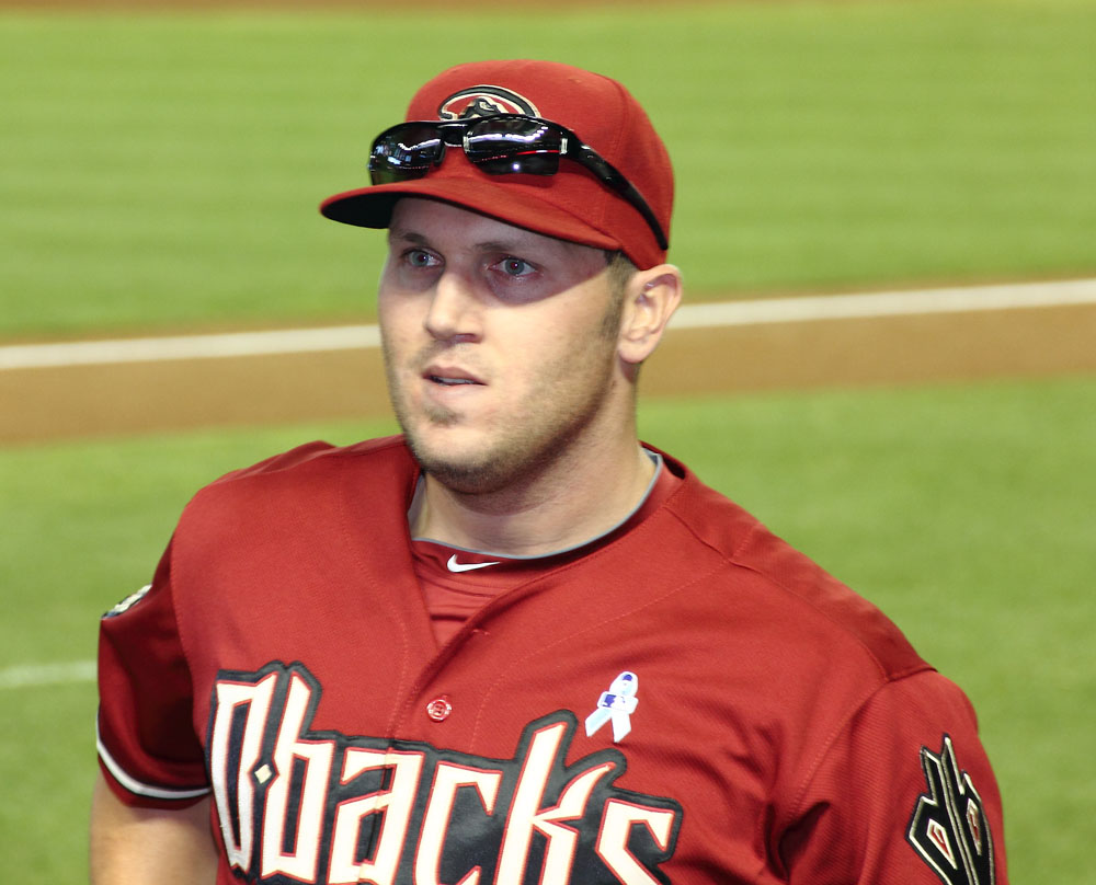 Burroughs, the day he was released by AZ Diamondbacks